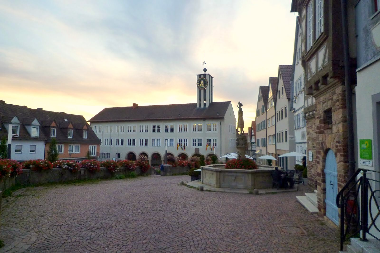 Altes Rathaus in Böblingen, Germany